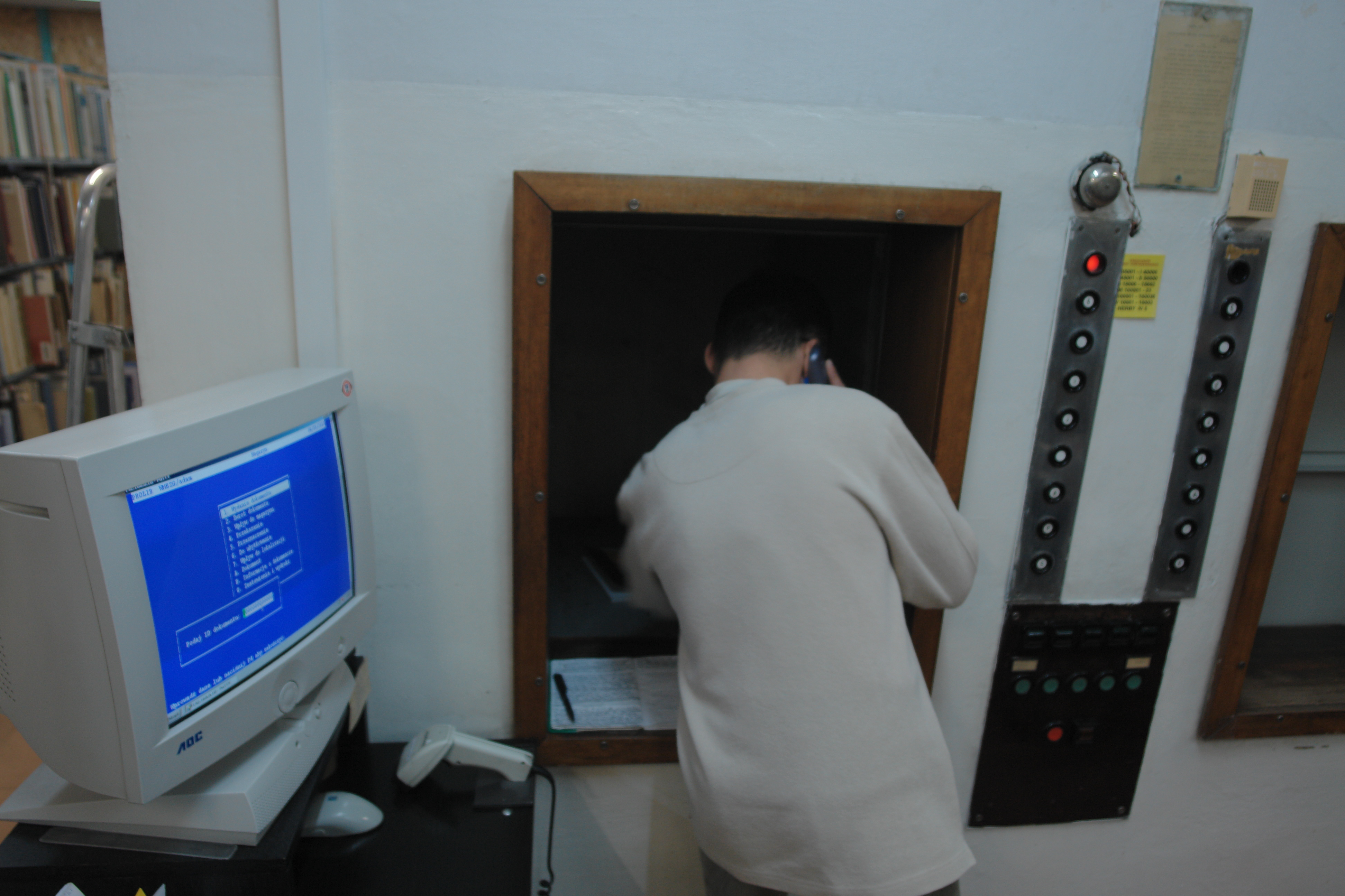 The Norwid Library in Zielona Góra, book elevator